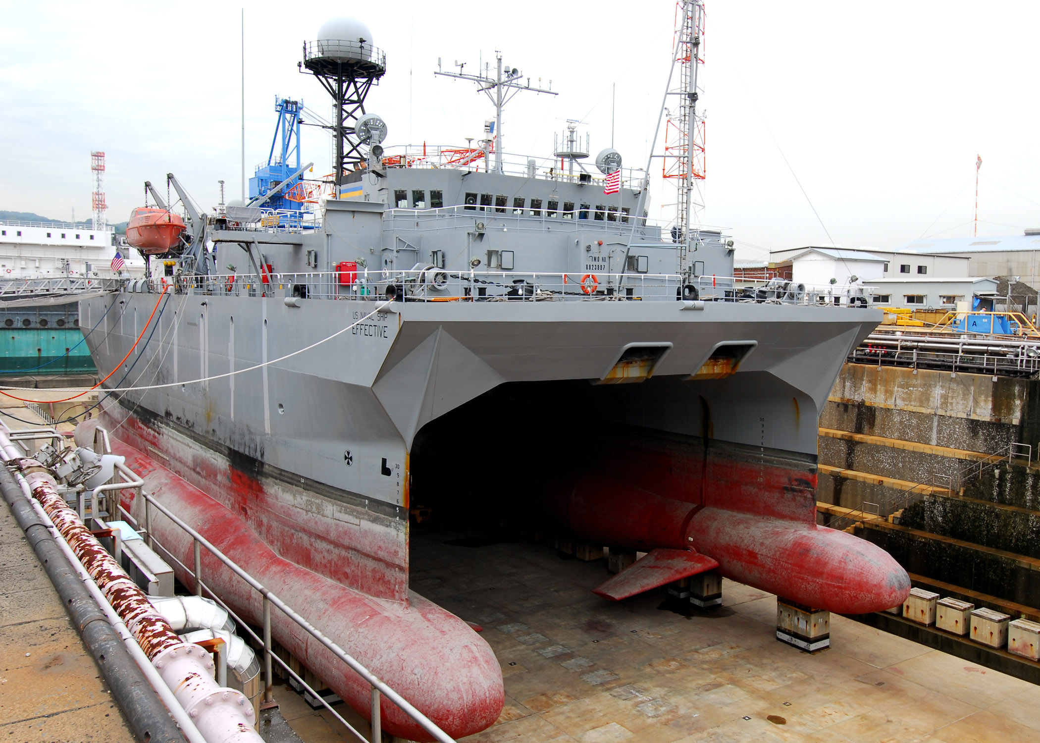 YOKOSUKA, Japan (Sept. 13, 2007) - Military Sealift Command (MSC) ocean surveillance ship USNS Effective (T-AGOS 21) sits in dry dock at Commander Fleet Activities Yokosuka. Effective is one of six MSC ocean surveillance ships and one of 24 MSC special mission ships. U.S. Navy photo by Mass Communication Specialist Seaman Bryan Reckard (RELEASED)